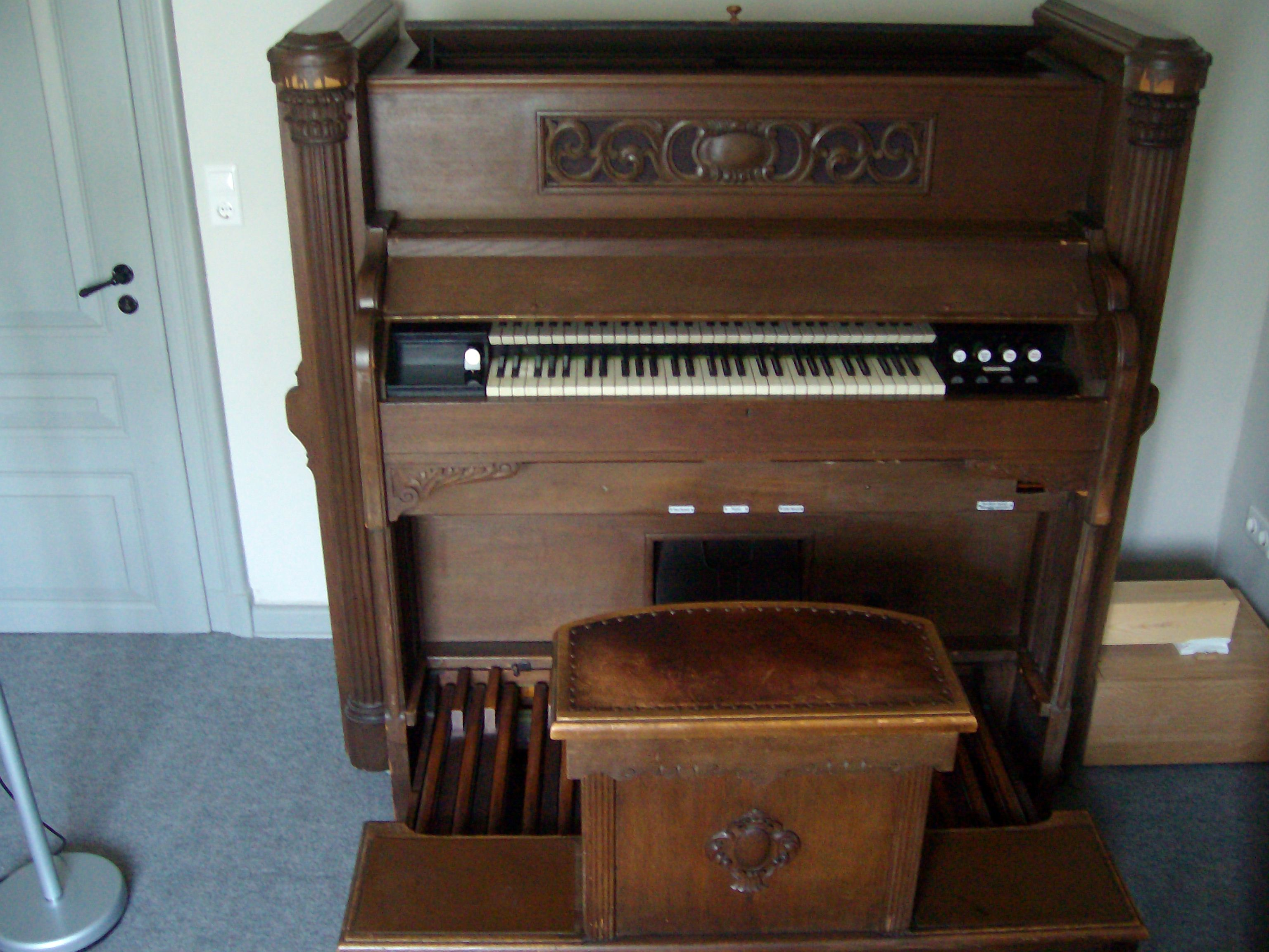 Harmonium in Organeum in Weener, district of Leer, East Frisia, Germany. Typeː Mannborg's "Neue Schwell-Orgel" [D. R.-Patent]